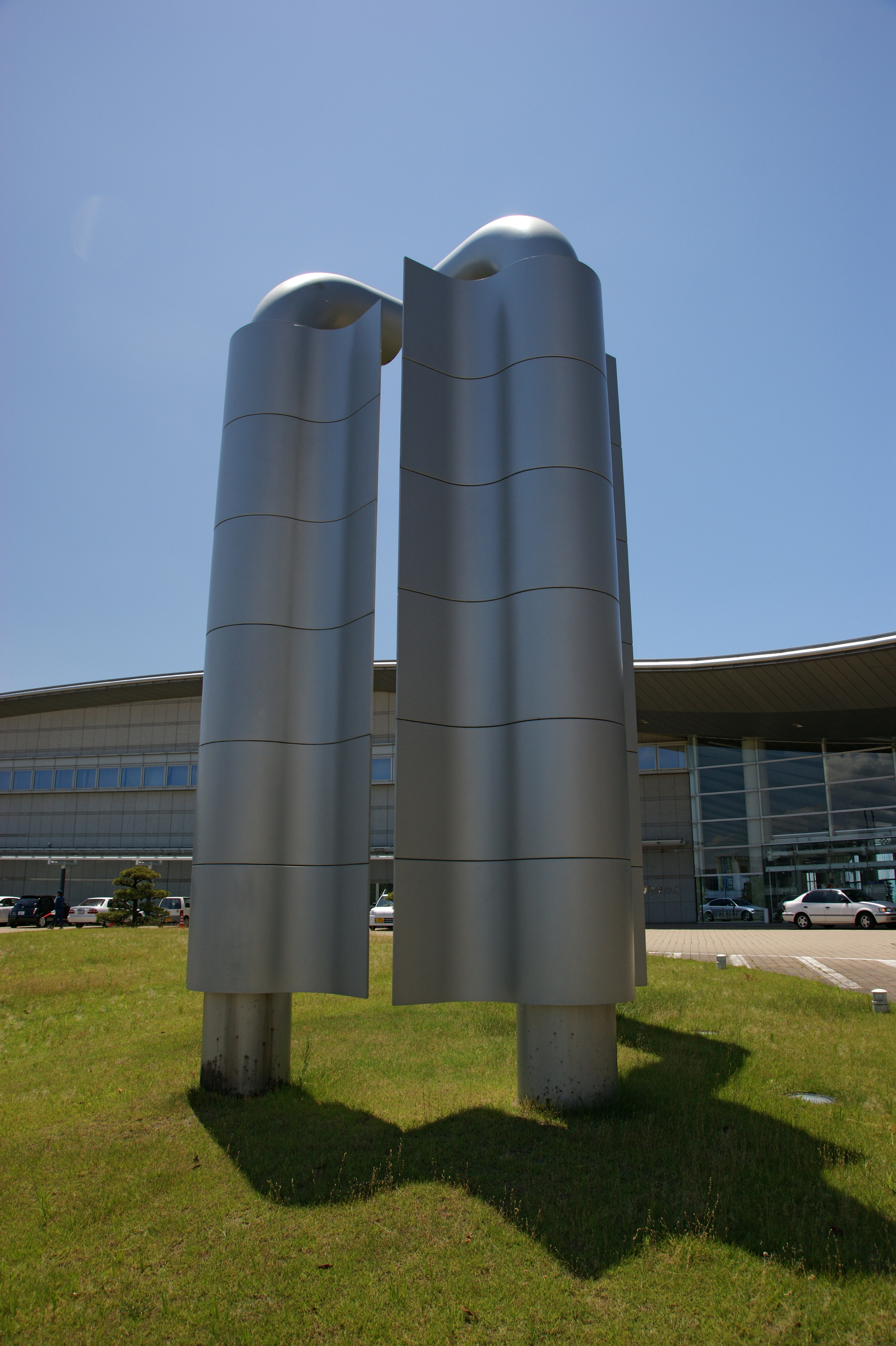 Shimane Art Museum in Matsue, Shimane prefecture, Japan